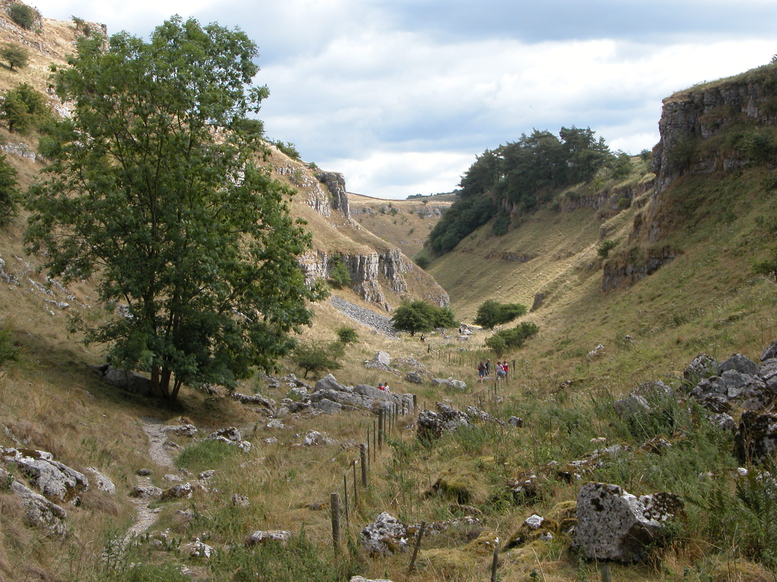 Lathkill Dale looking downdale, about 1 km from Monyash.